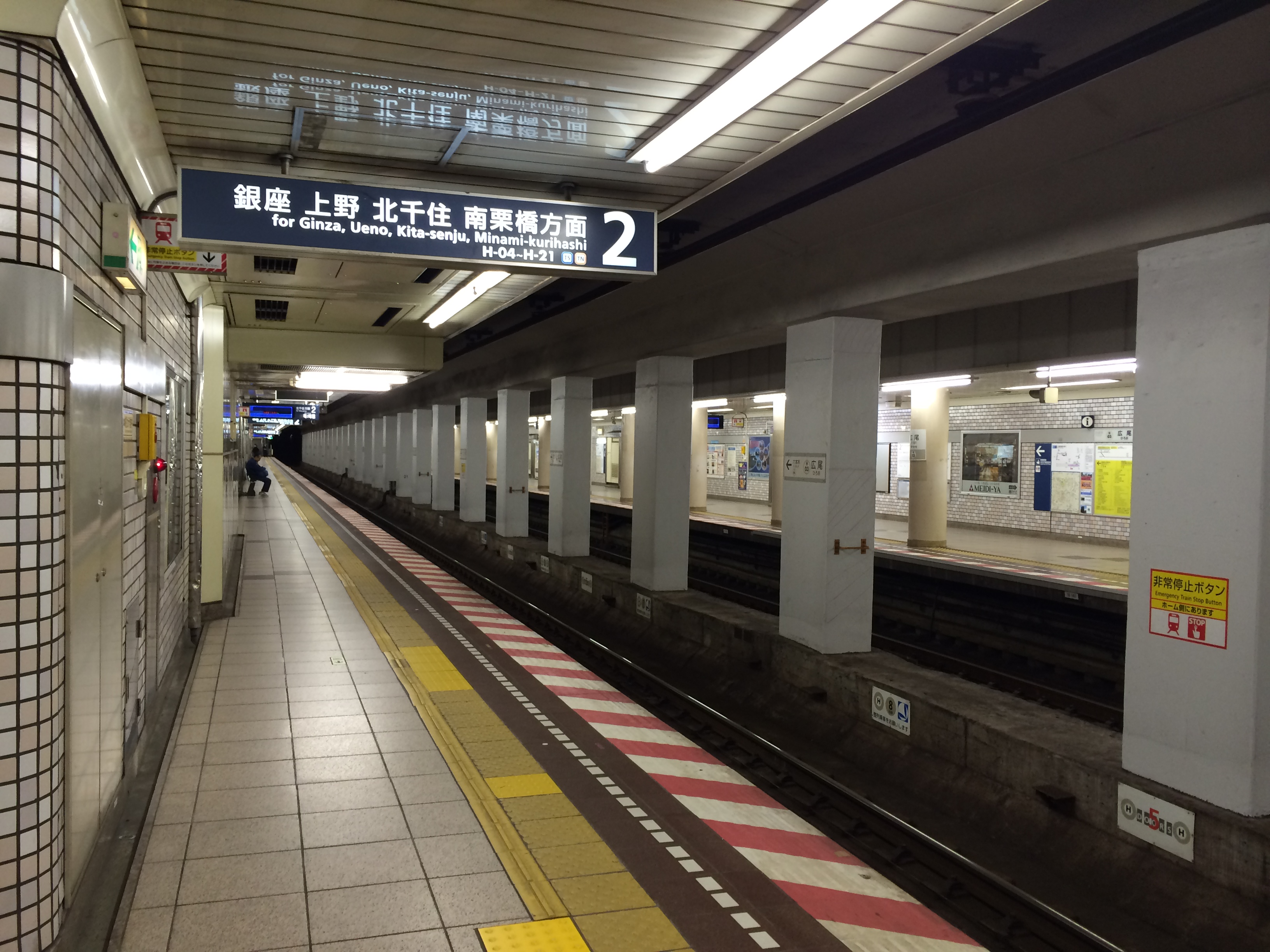 The platfoms at Hiroo Station in Tokyo, Japan